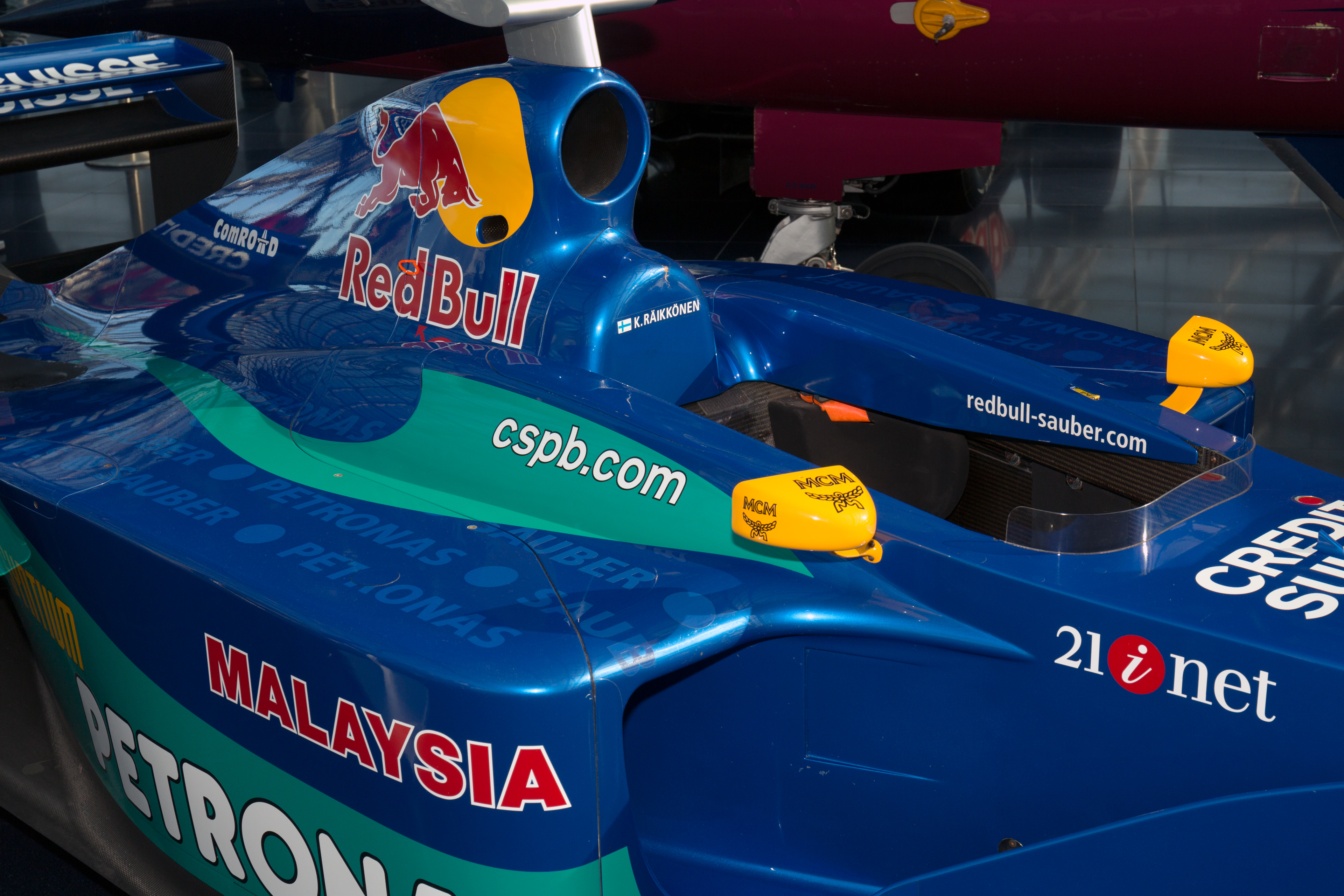 Hangar-7: Sauber C20